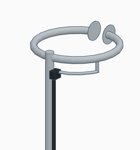 3d Drawing of typical Halo Antenna construction